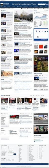 This is a screengrab from